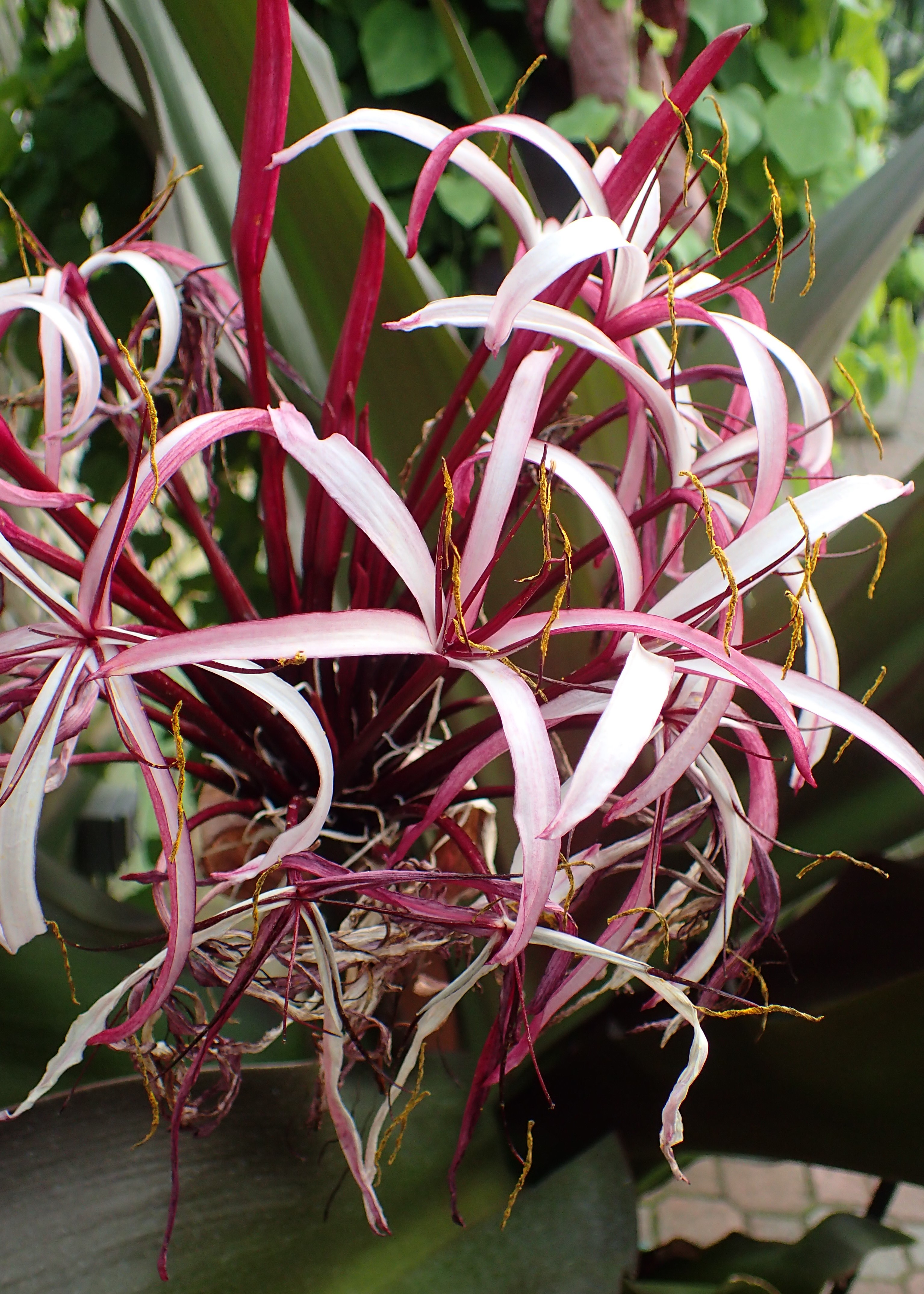 Crinum 'Purple Queen Emma' in Lincoln Park Conservatory, Chicago, USA